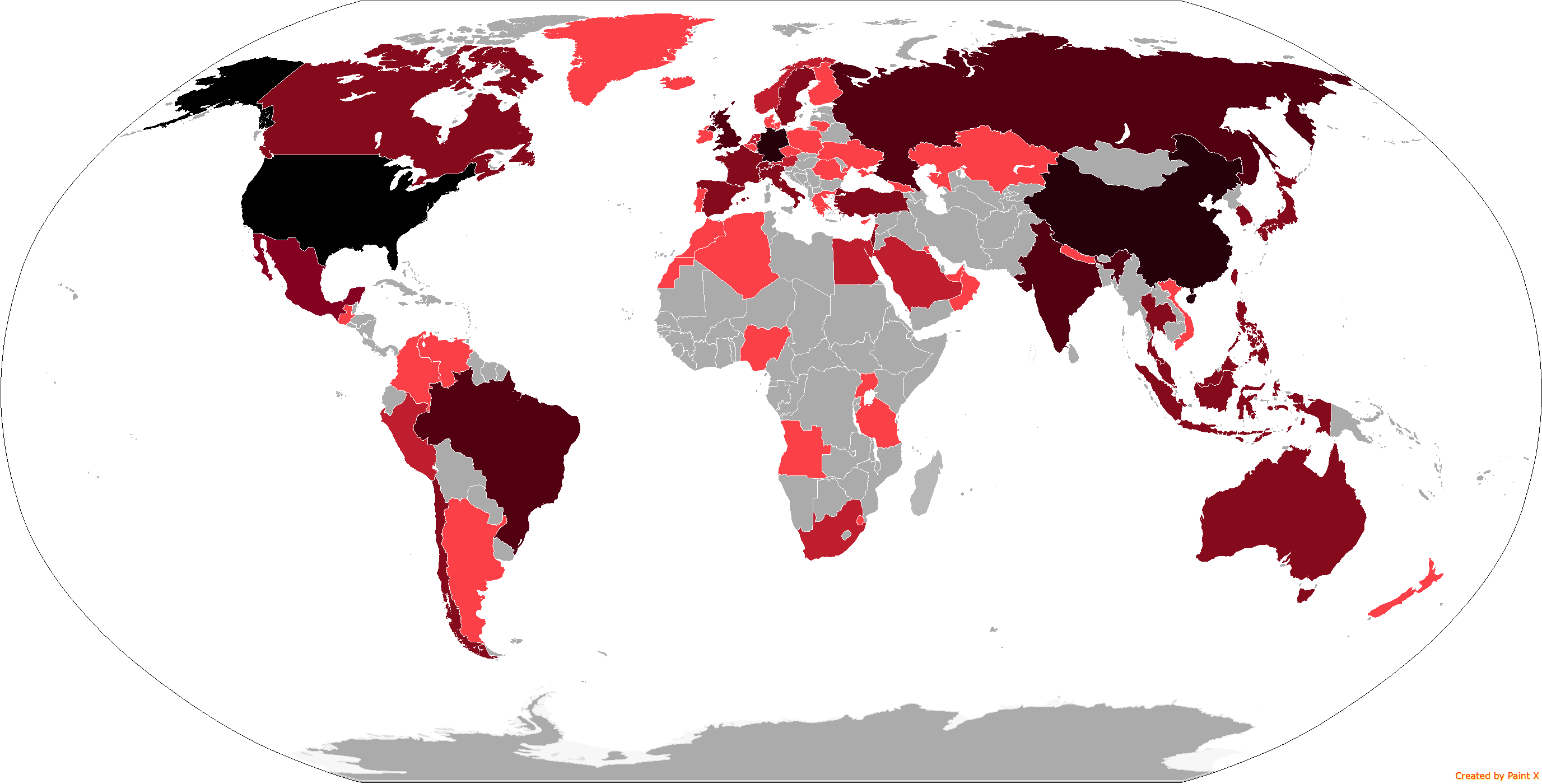 Countries by total number of US$ billionaires